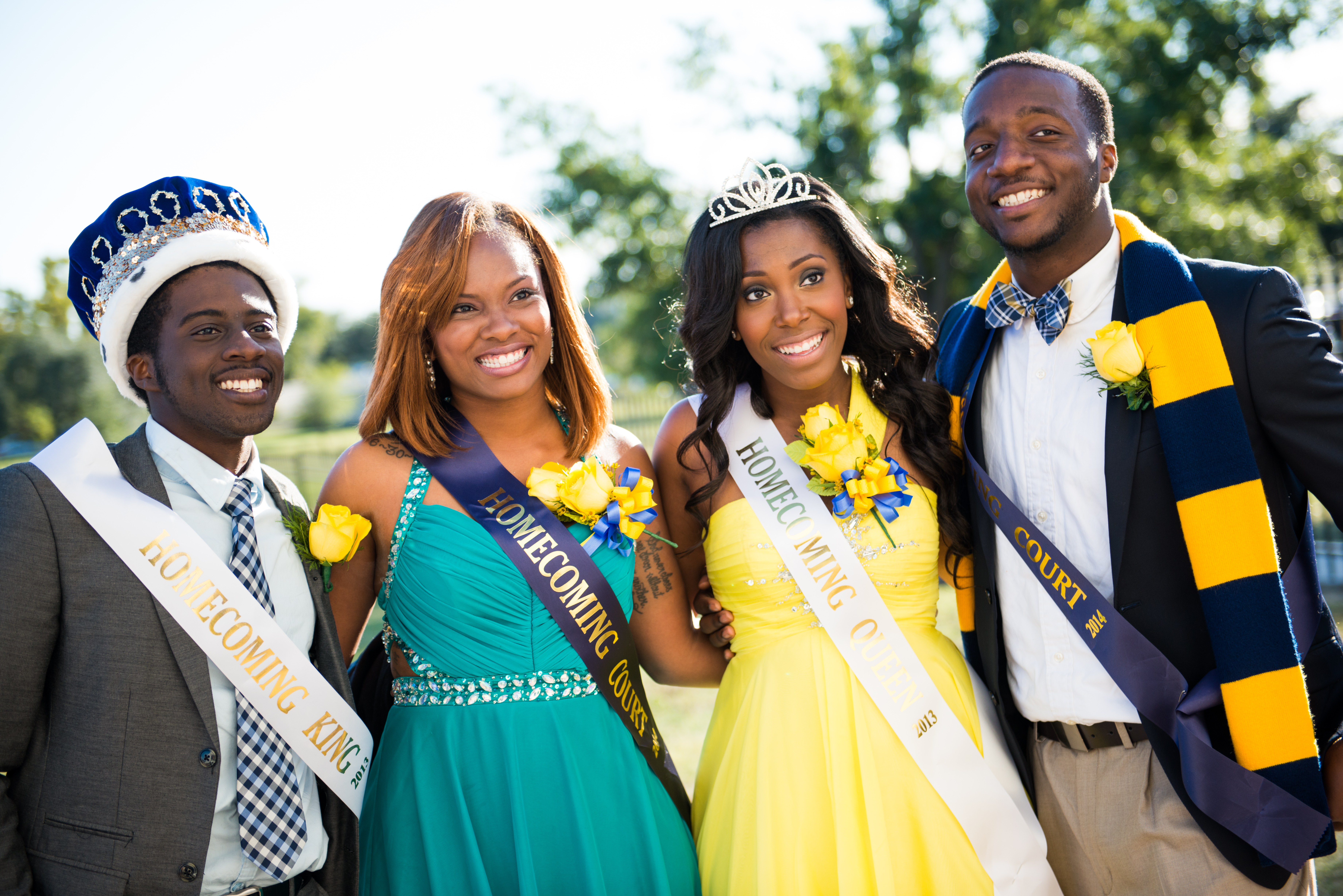 14497-Homecoming Football vs McMurray-3918.jpg Scenes from the McMurry War Hawks vs. Texas A&M–Commerce Lions football game and homecoming tailgate on November 1, 2014.